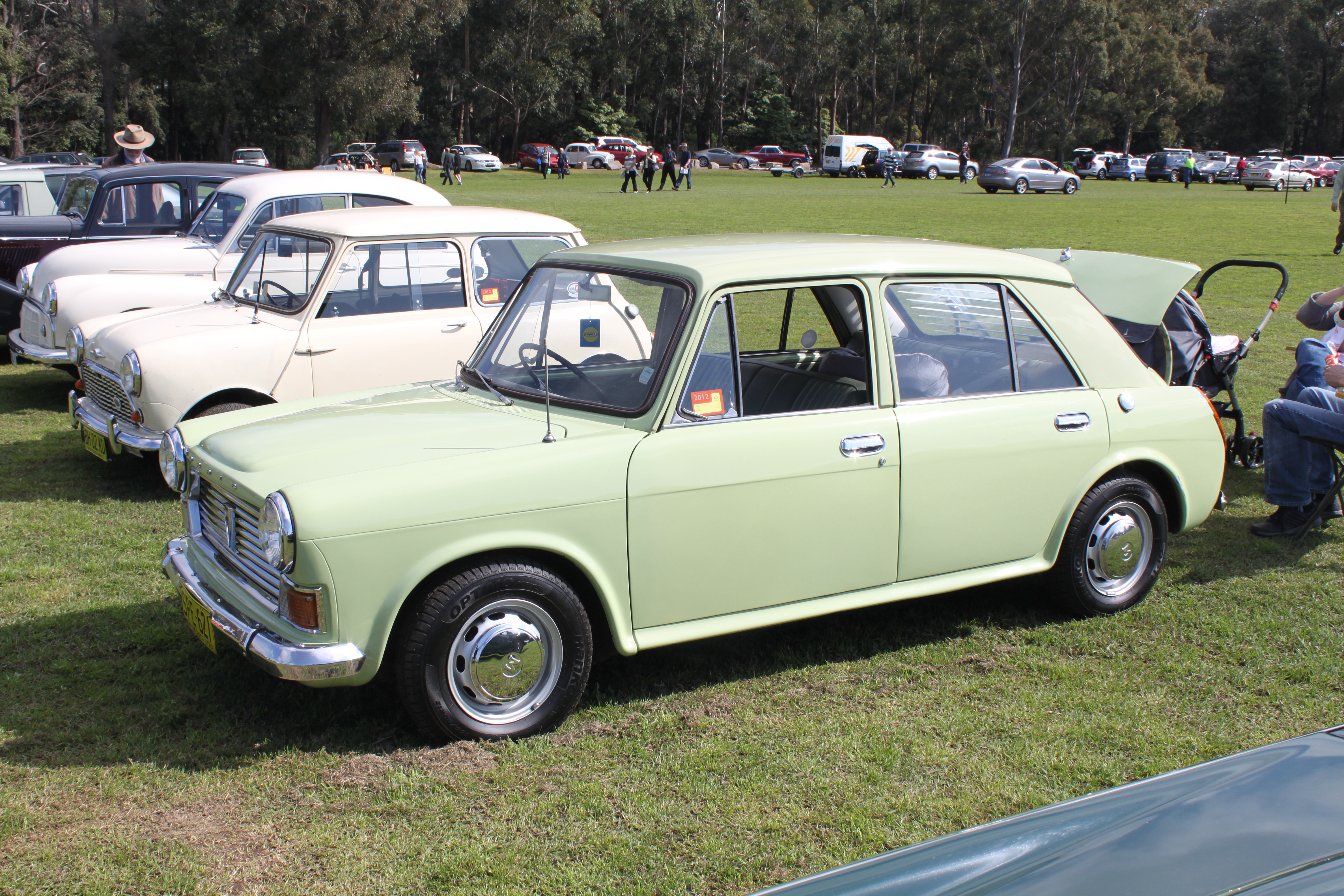 Morris 1300